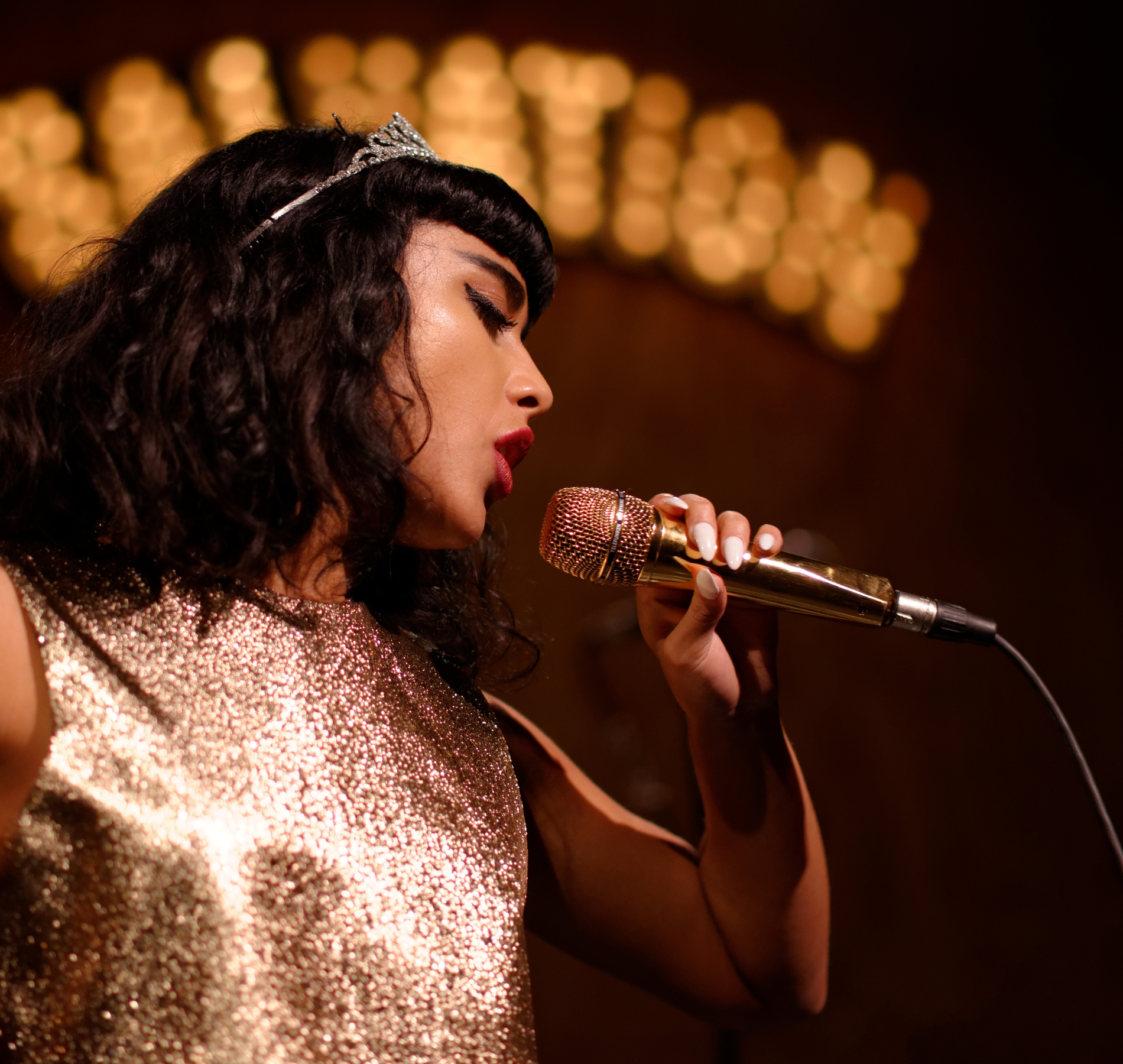 Natalia Kills performing live at the Bootleg Bar in Los Angeles California on Sunday February 16th, 2014. Part of the #THENEWNEW artist residency presented by Filter Magazine and Revolve Clothing.